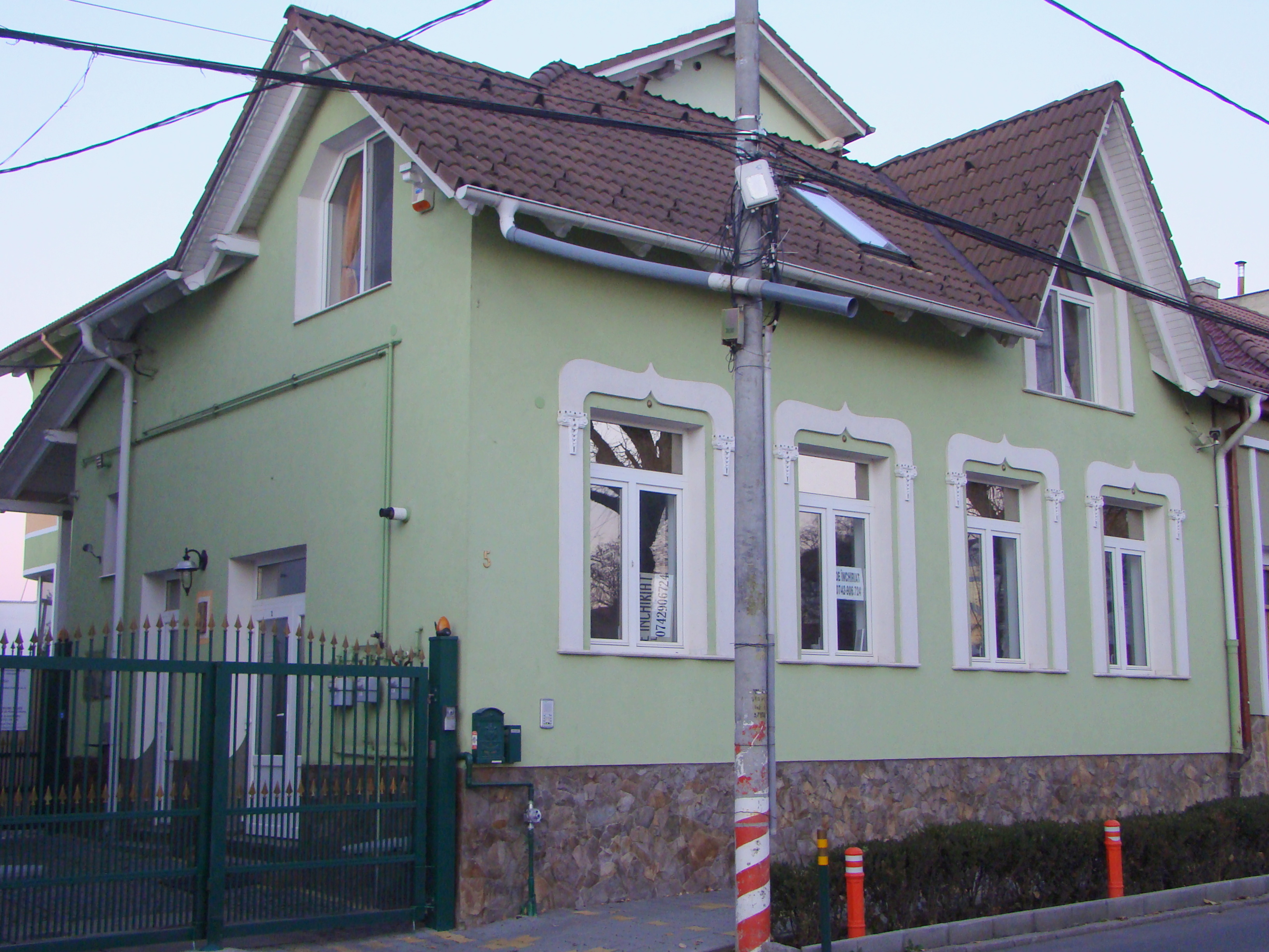 House, historic monument, in Târgu Mureș, Bd. Cetății 5